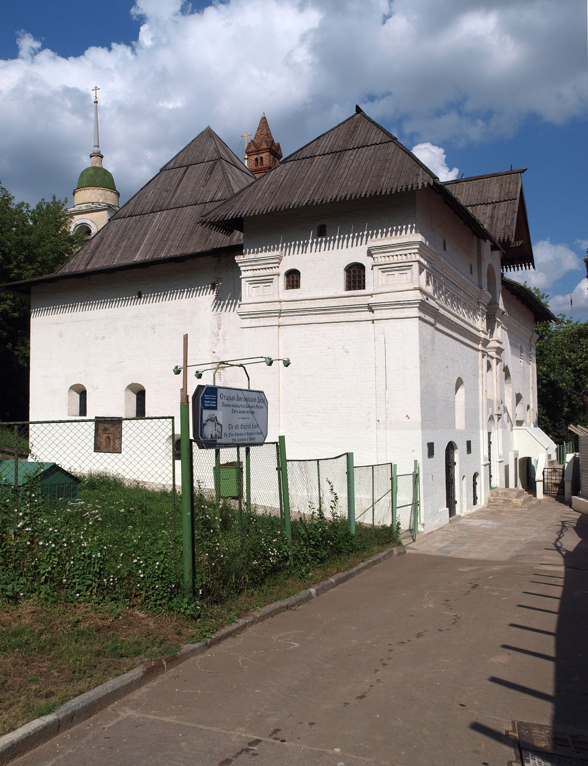 Old English Court in Moscow (4, Varvarka Street). 16th-17th centuries.